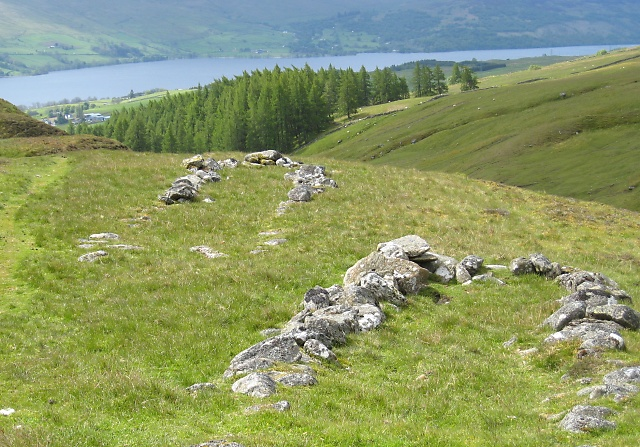 Looking over the remains of these old Shielings to Loch Tay